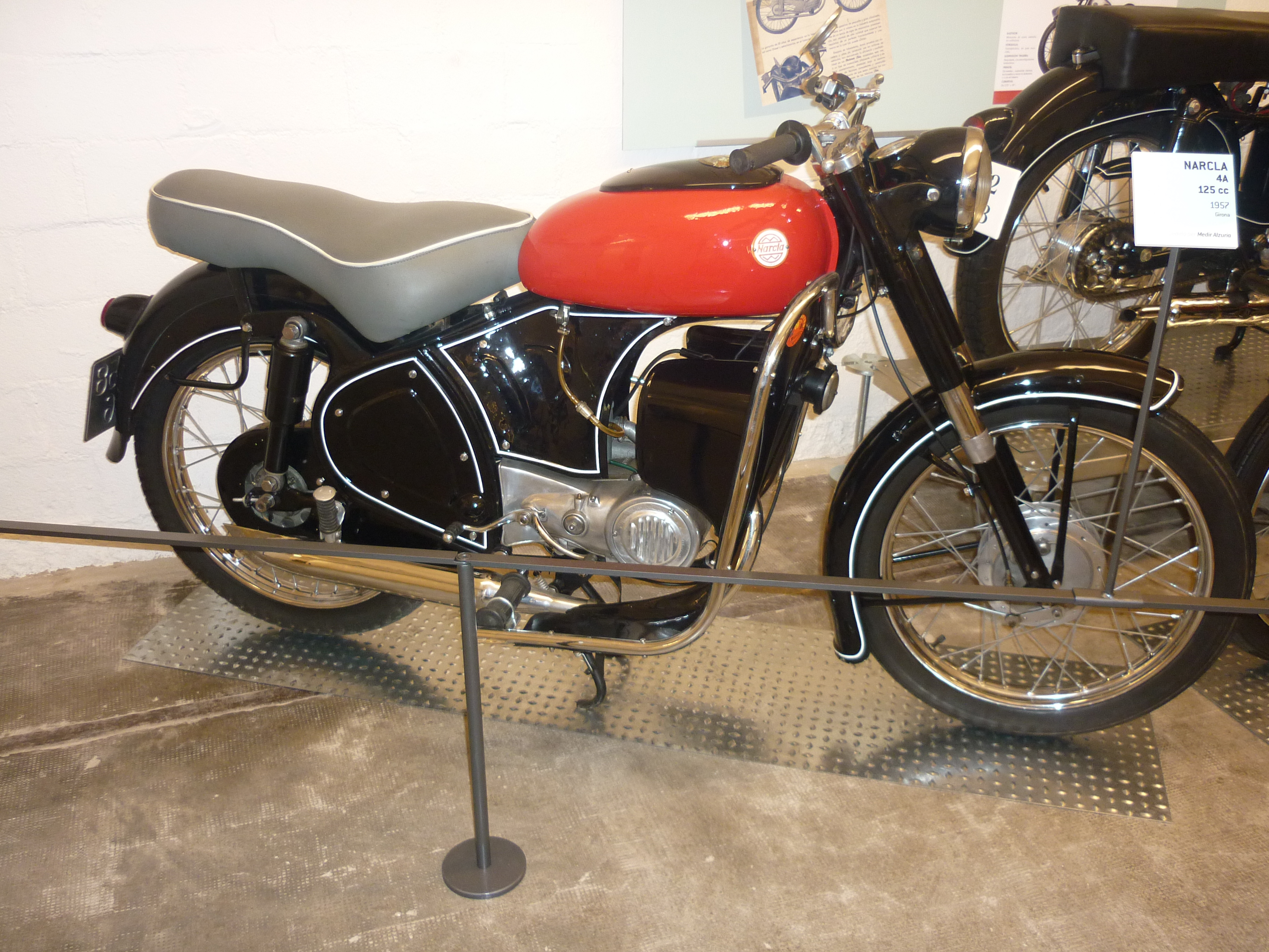 Narcla 4-A 125cc (1957).Museu de la Moto de Barcelona (Catalonia).